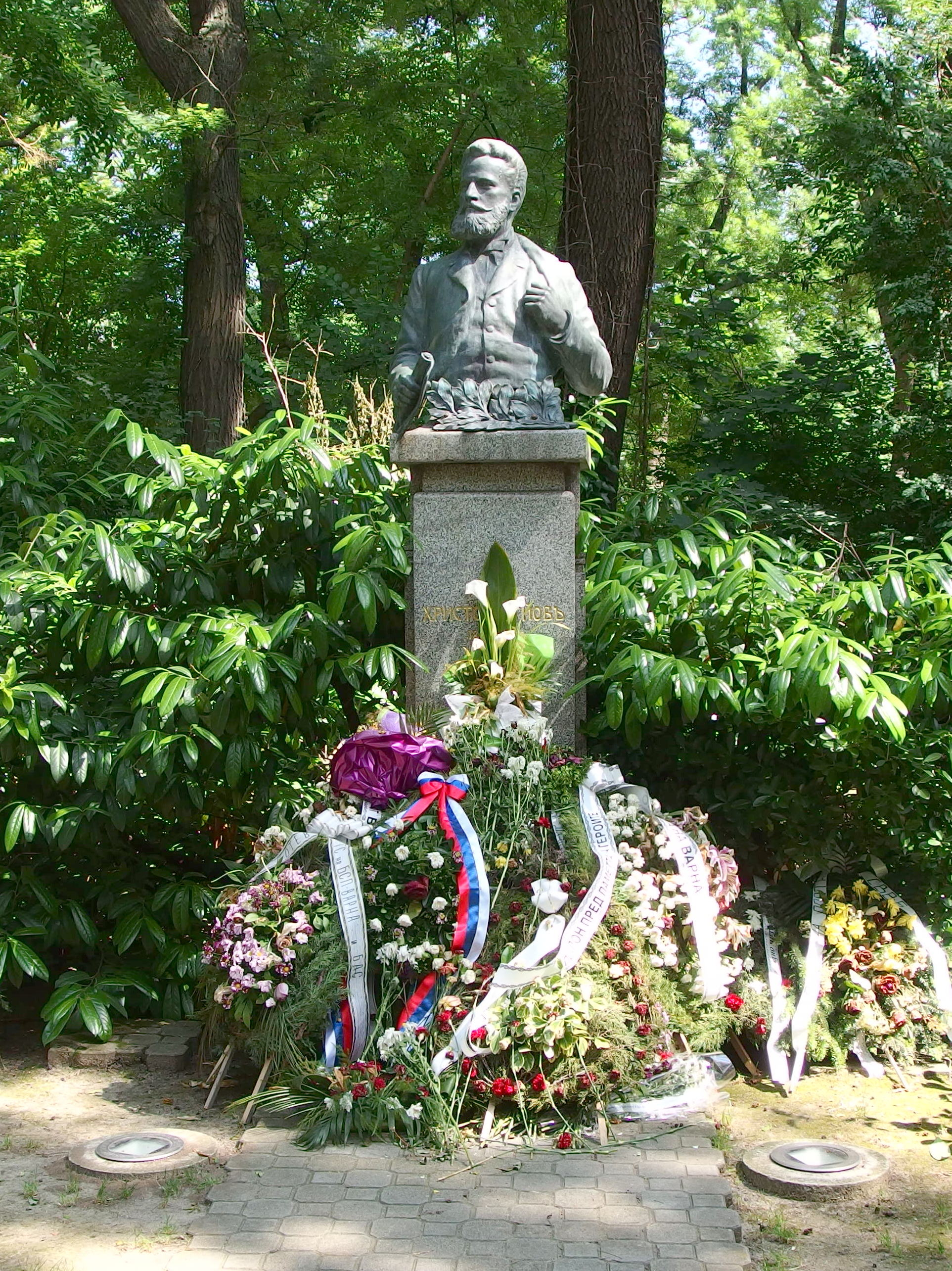 2014-06-10 in Varna.